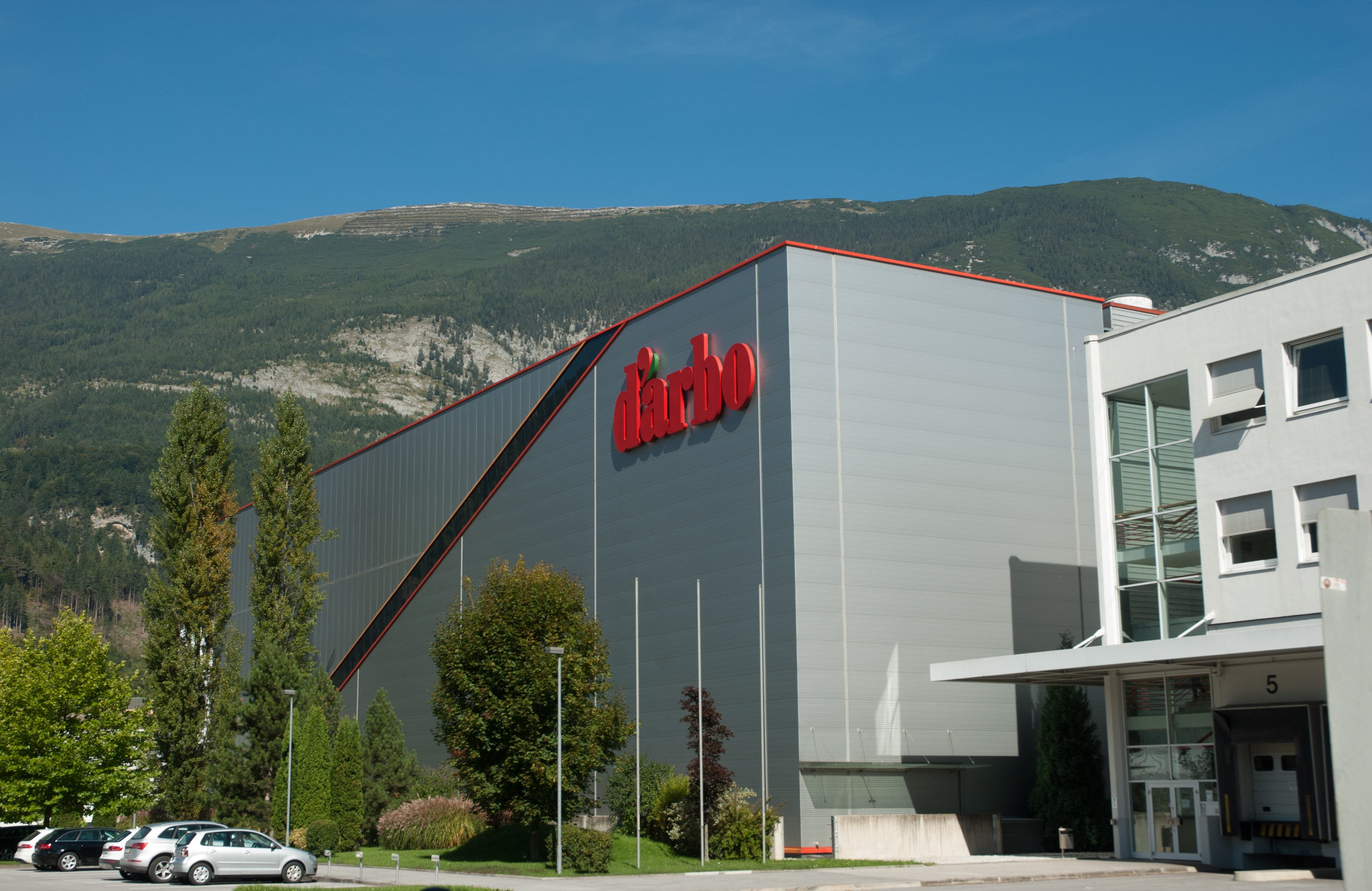 Building of the Darbo company in Stans, Tyrol. In the background the Stanser Joch